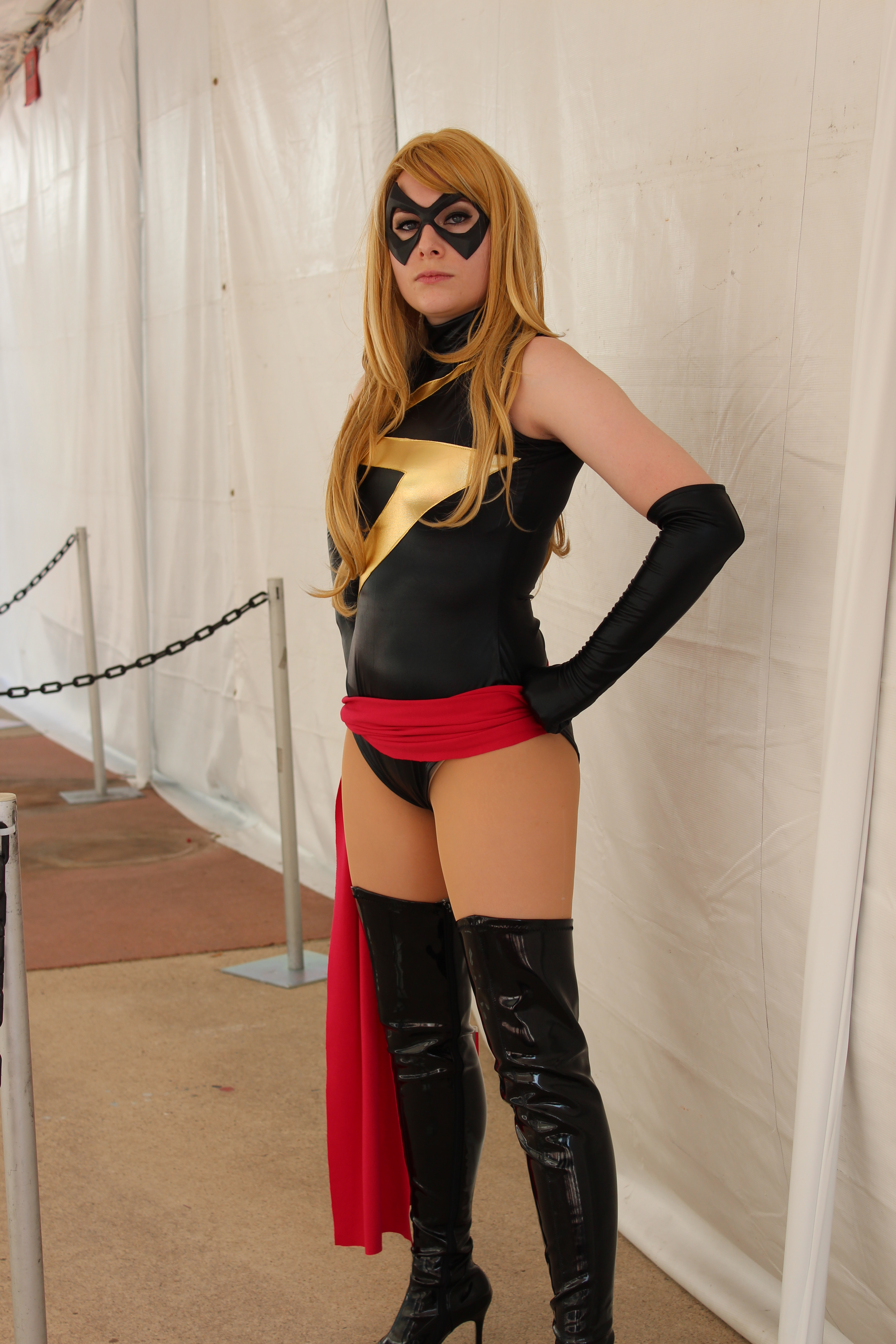 Cosplay at San Diego Comic-Con (SDCC 2012).